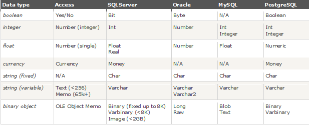 SQL Өгөгдлийн сангийн серверүүдийн өгөгдлийн төрөл